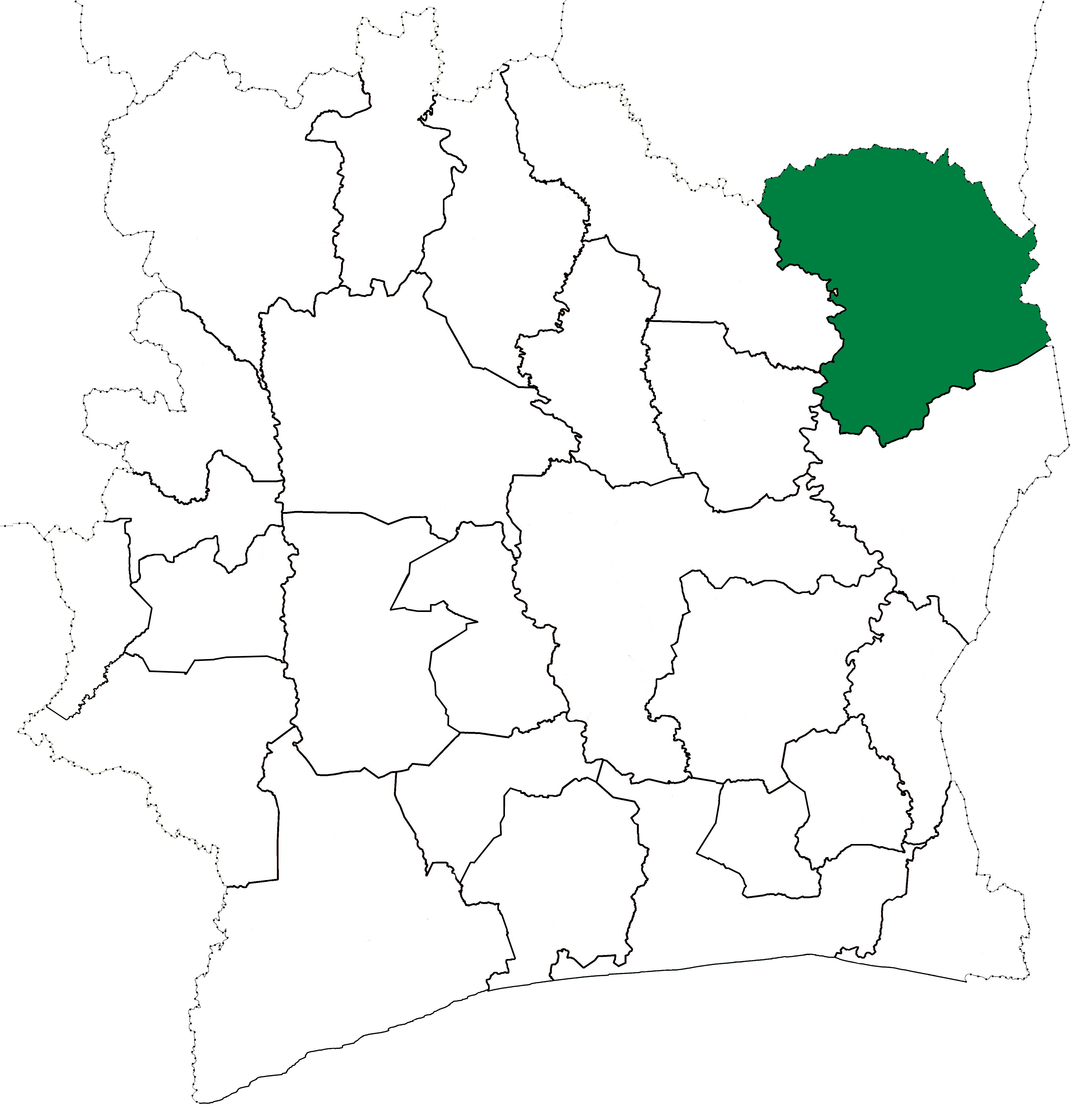 Locator map for Bouna Department in Côte d'Ivoire when it was created in 1974. Bouna Department kept these boundaries until 2005, but other boundary changes to subdivisions of Côte d'Ivoire began to be made in 1980.